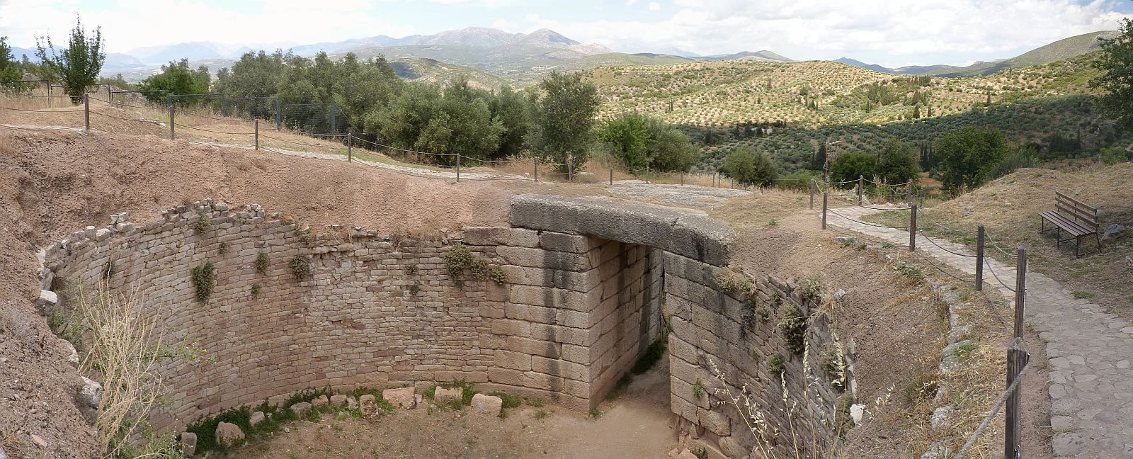 Ancient Mycenae 07